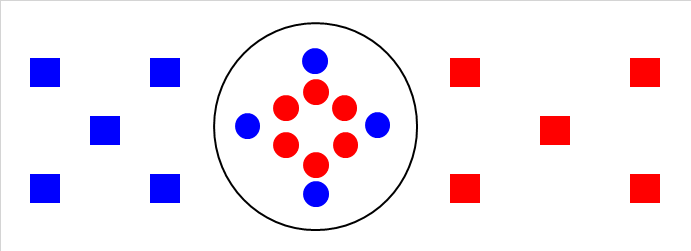 Different array types require different illuminations. Left: checkerboard arrays require C-quad illumination (blue).[1] Right: Near-triangular arrays require hexapole illumination (red).[2] Note that in bidirectional layouts, this array may also be rotated 90 degrees in some locations, so that the hexapole also needs to be rotated 90 degrees, forming a third required separate illumination.